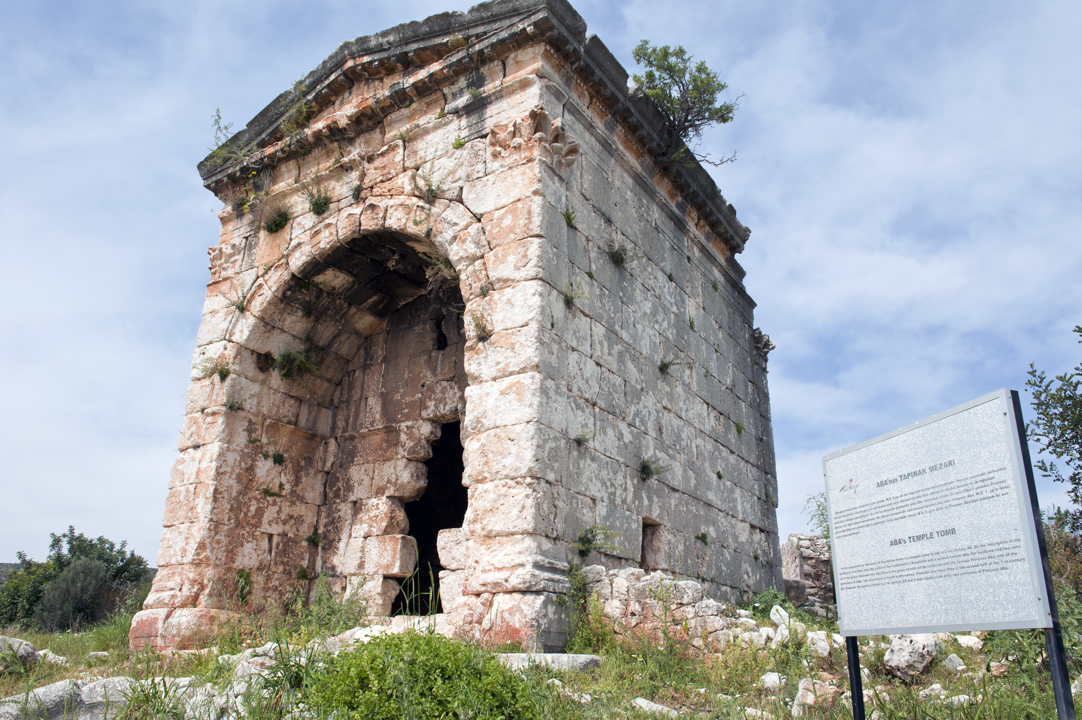 Aba’s Temple Tomb rests on a hill March 31, 2013, at Kanlidivane , Turkey. Though Kanlidivane is often described as an old town, the impression given by the site is more along the lines of an ancient shrine. Kanlidivane is one of several trips offered by various agencies at Incirlik Air Base, Turkey.